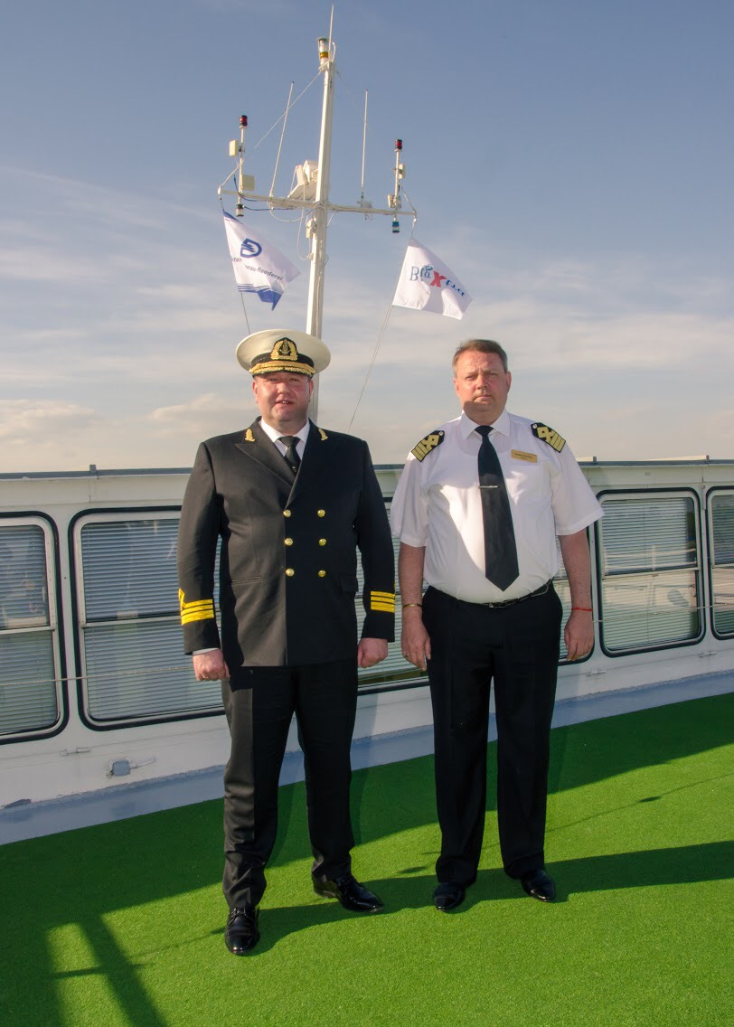 Dmytro Chalyi (left), Chairman of the Board of PJSC "Ukrainian Danube Shipping Company", aboard the cruise passenger ship "Moldavia" with Captain Sergei Aldoshkin. 25 April 2018, Vienna